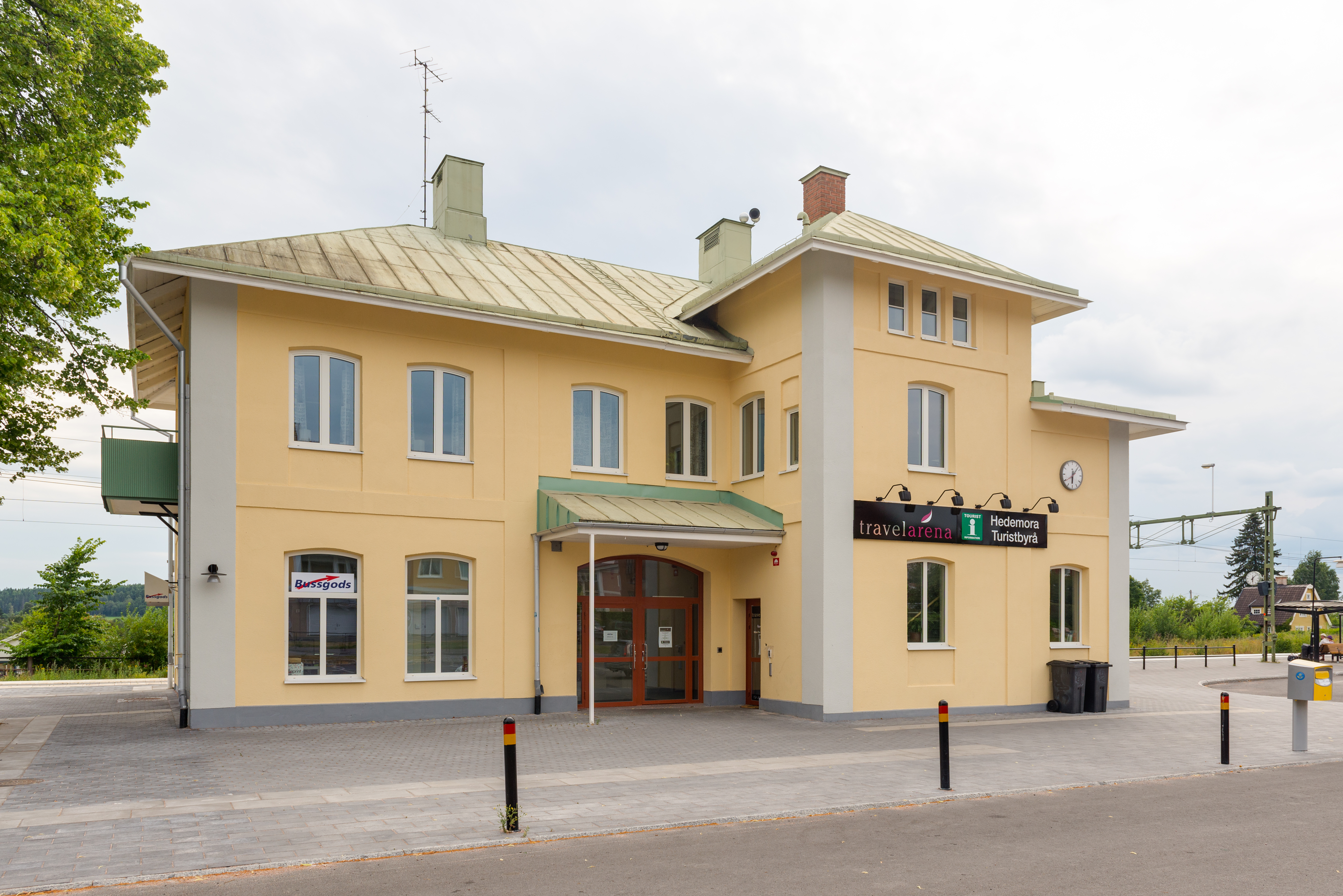 Hedemora station, July 2013.